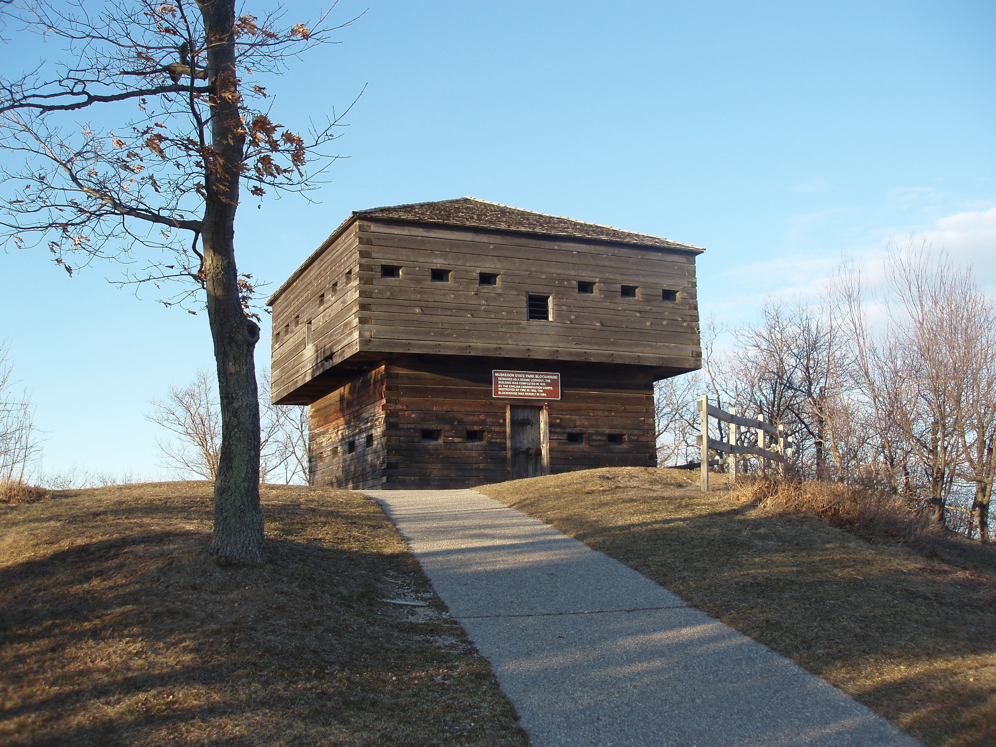 Taken by Darwin Smith Jr. on March 25, 2006 at Muskegon State Park, Michigan, showing the South-West side of the blockhouse. Built in 1935 by Civilian Conservation Corps, destroyed by fire in 1962 and rebuilt in 1964. The replica blockhouse is now being used as a scenic outlook over Lake Michigan and the Muskegon State Park Area.